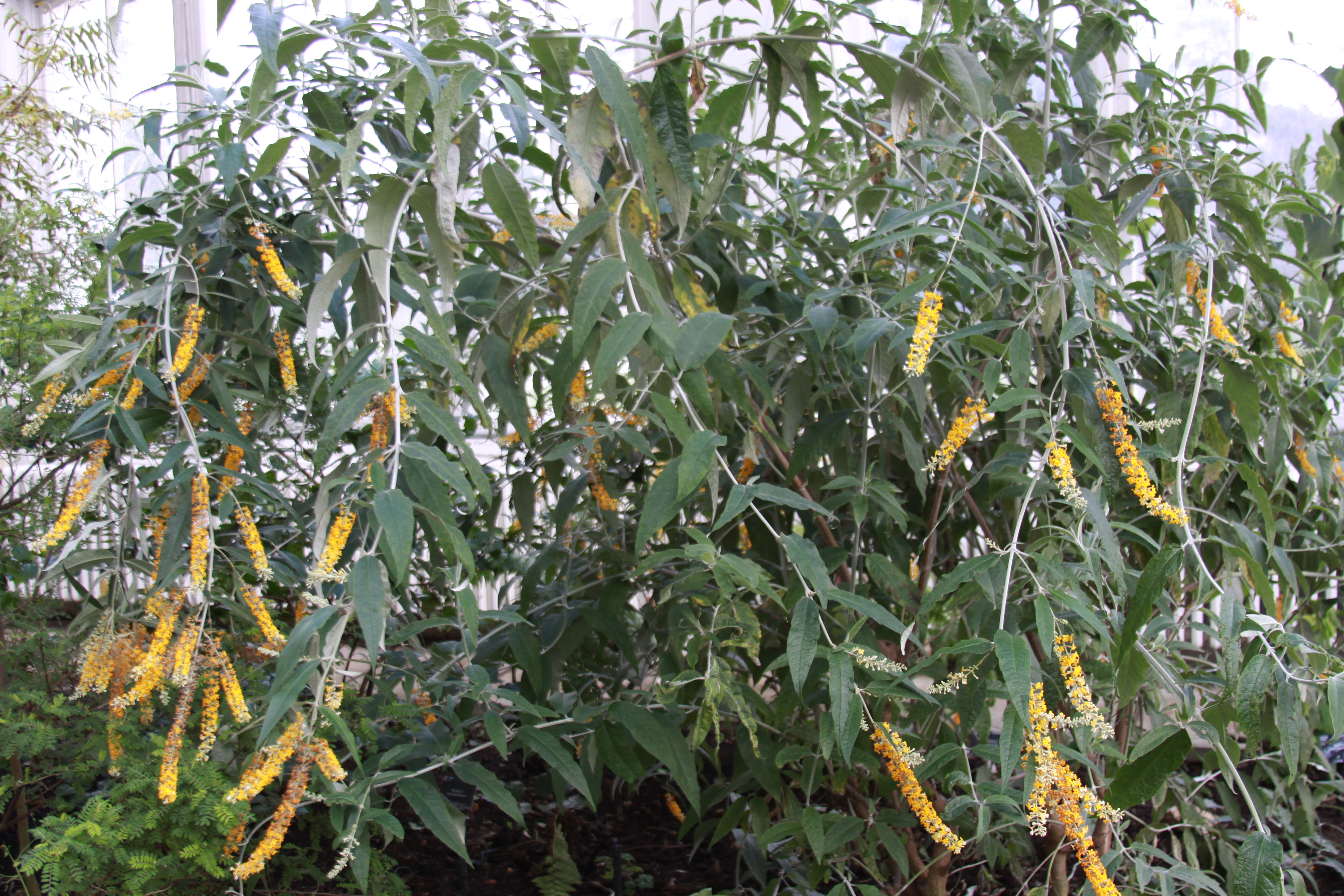 Royal Botanic Gardens, Kew Temperate House